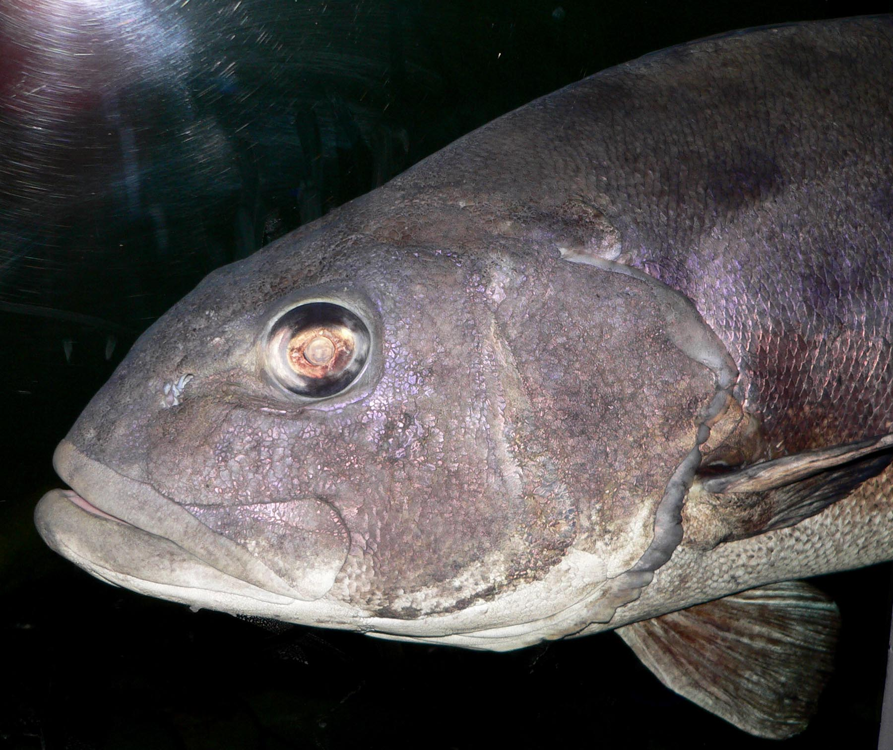 Photo of Stereolepis gigas (giant sea bass) head at the Steinhart Aquarium in San Francisco